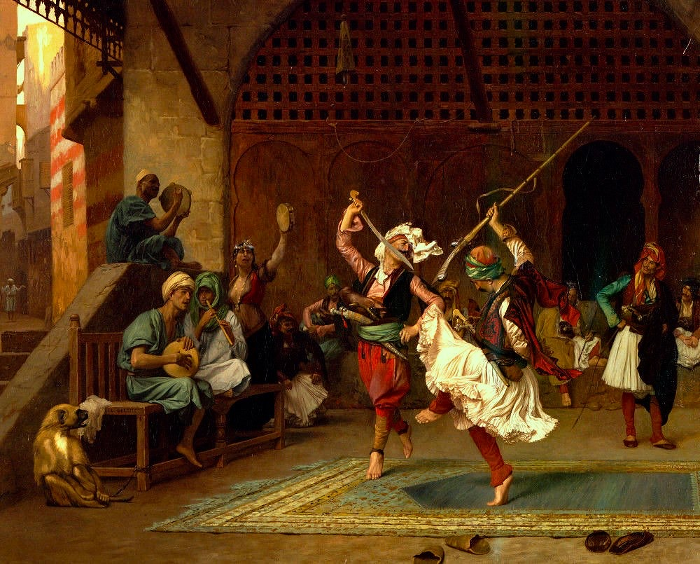 Albanian bashi-bazouks (Arnauts) performing the sword dance in Cairo, Egypt.